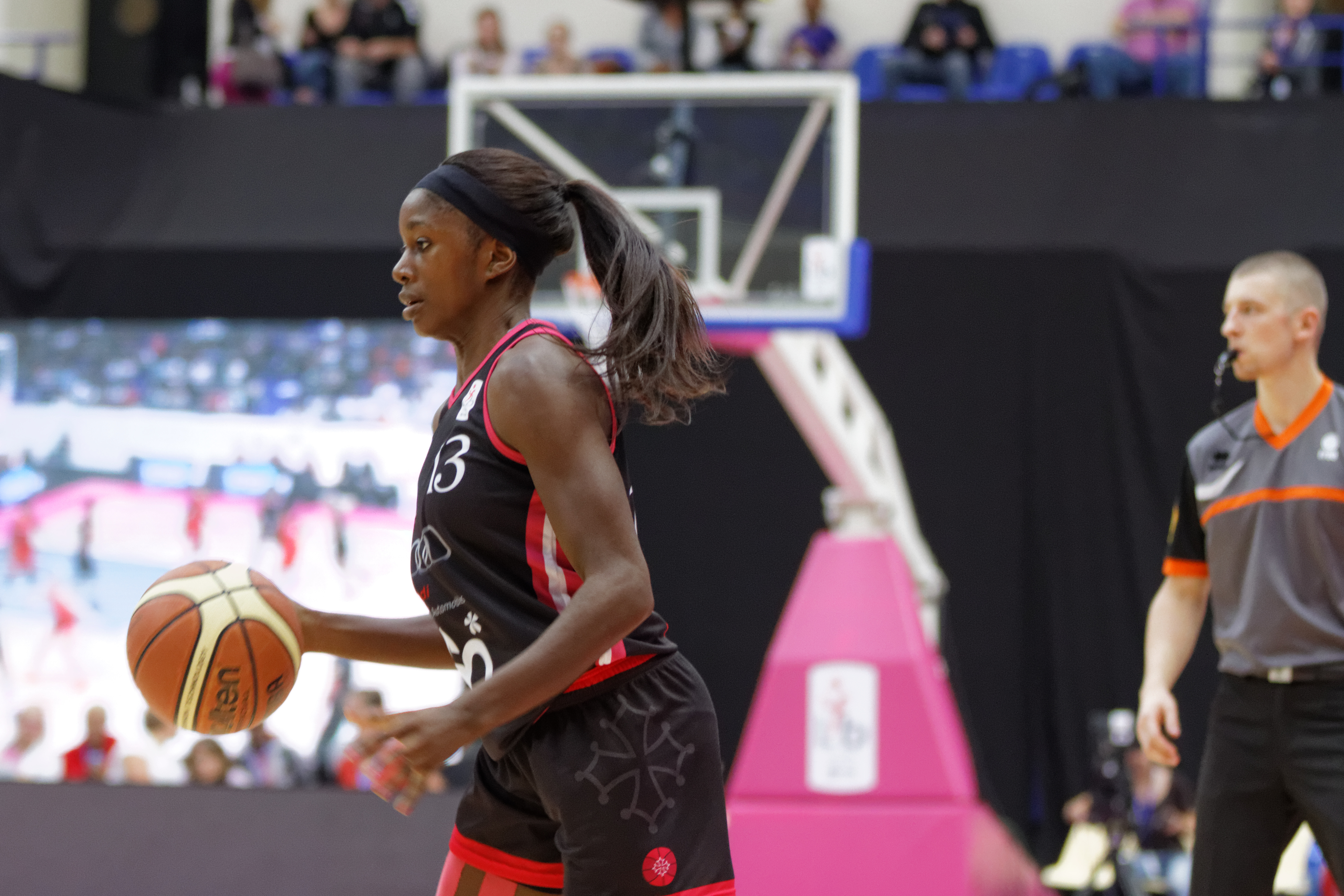 Open LFB, Toulouse-Mondeville, October 5th, 2013.